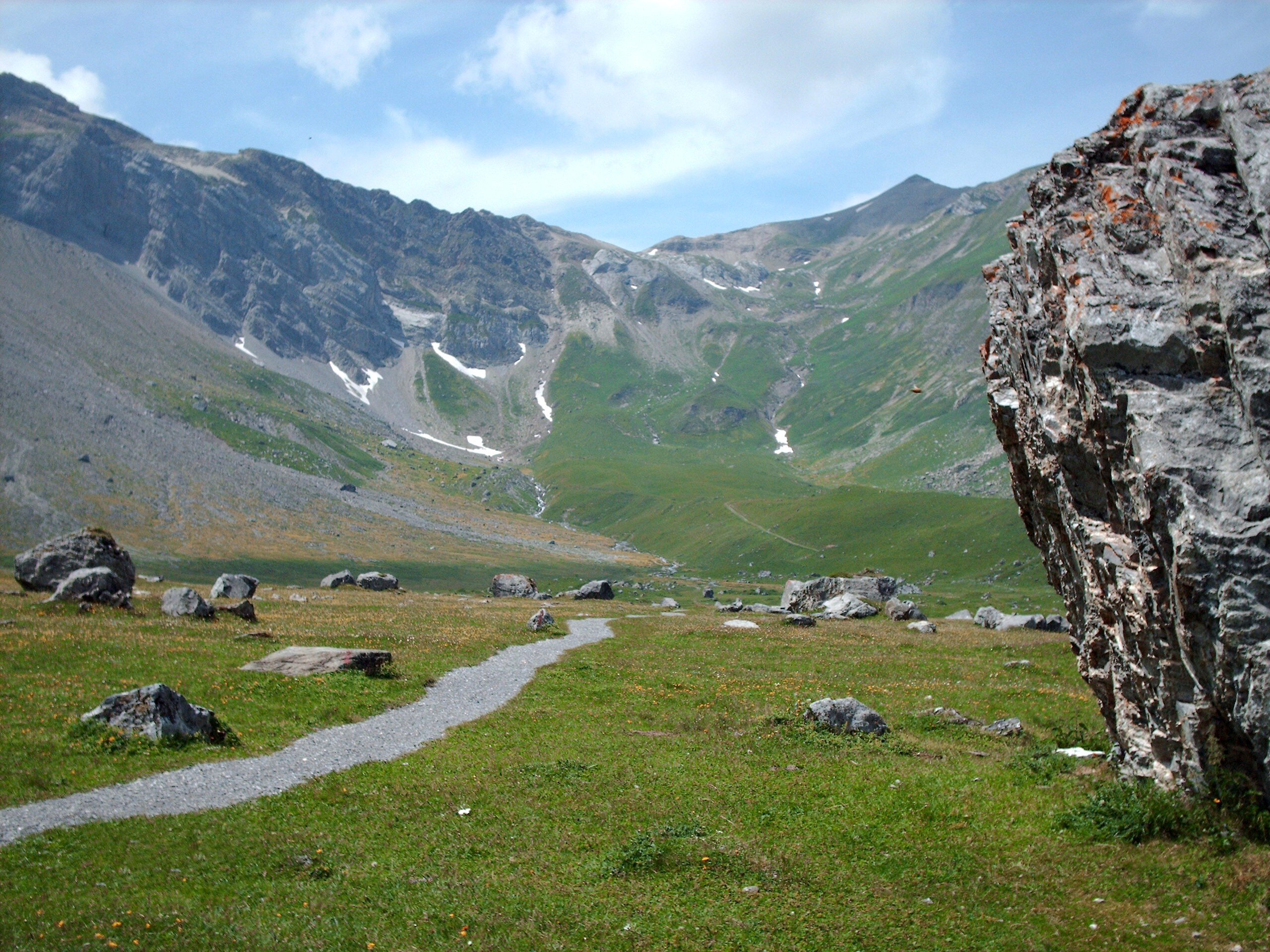 Wheelchair path on Engstligenalp, Switzerland, with view of Aemmerten pass. Own photo taken by Irmgard on July 12, 2006